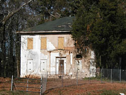 Judge WIlliam Wilson House 1990s or 2000s approx.